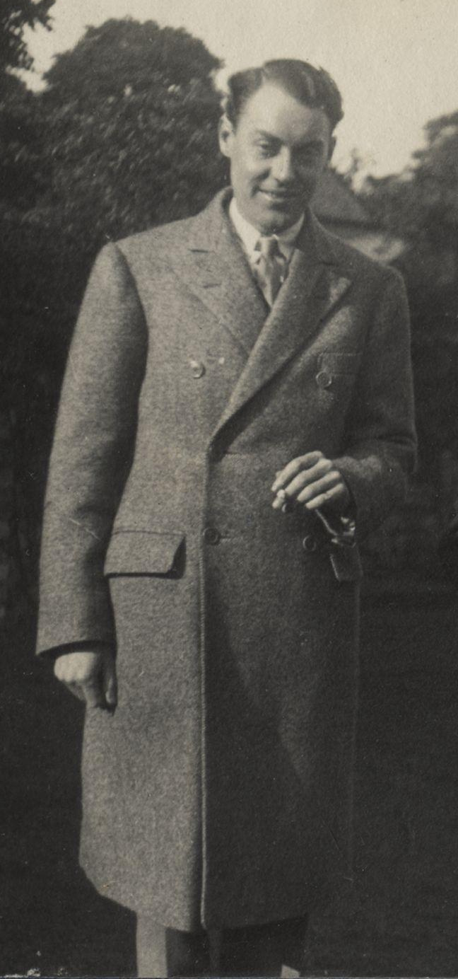 Extracted from Clifford Henry Benn Kitchin; Richard Jennings; Kenneth Ritchie; Philip Charles Thomson Ritchie, by Lady Ottoline Morrell (died 1938).